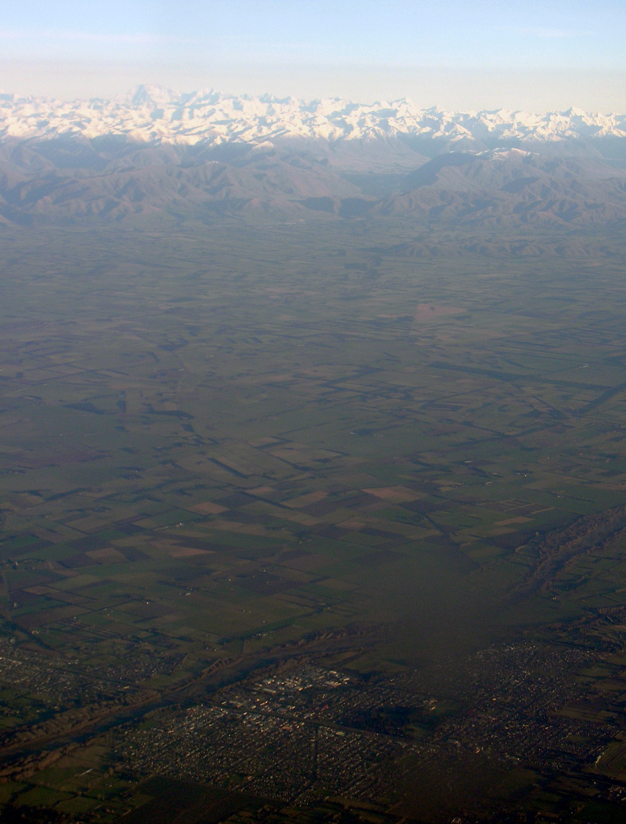 The image shows the town of Ashburton, New Zealand in front and the Southern Alps in the background